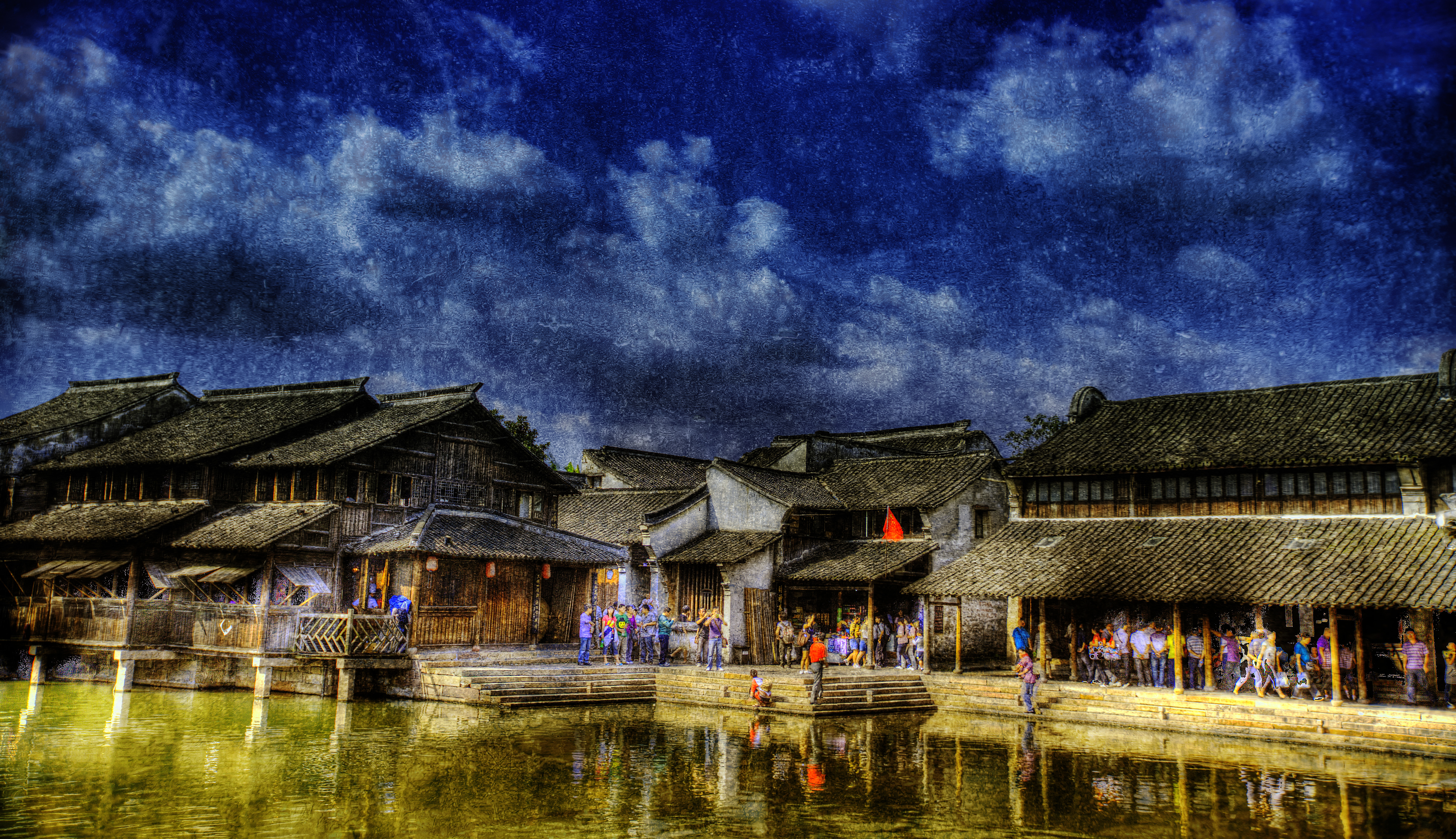 Wuzhen